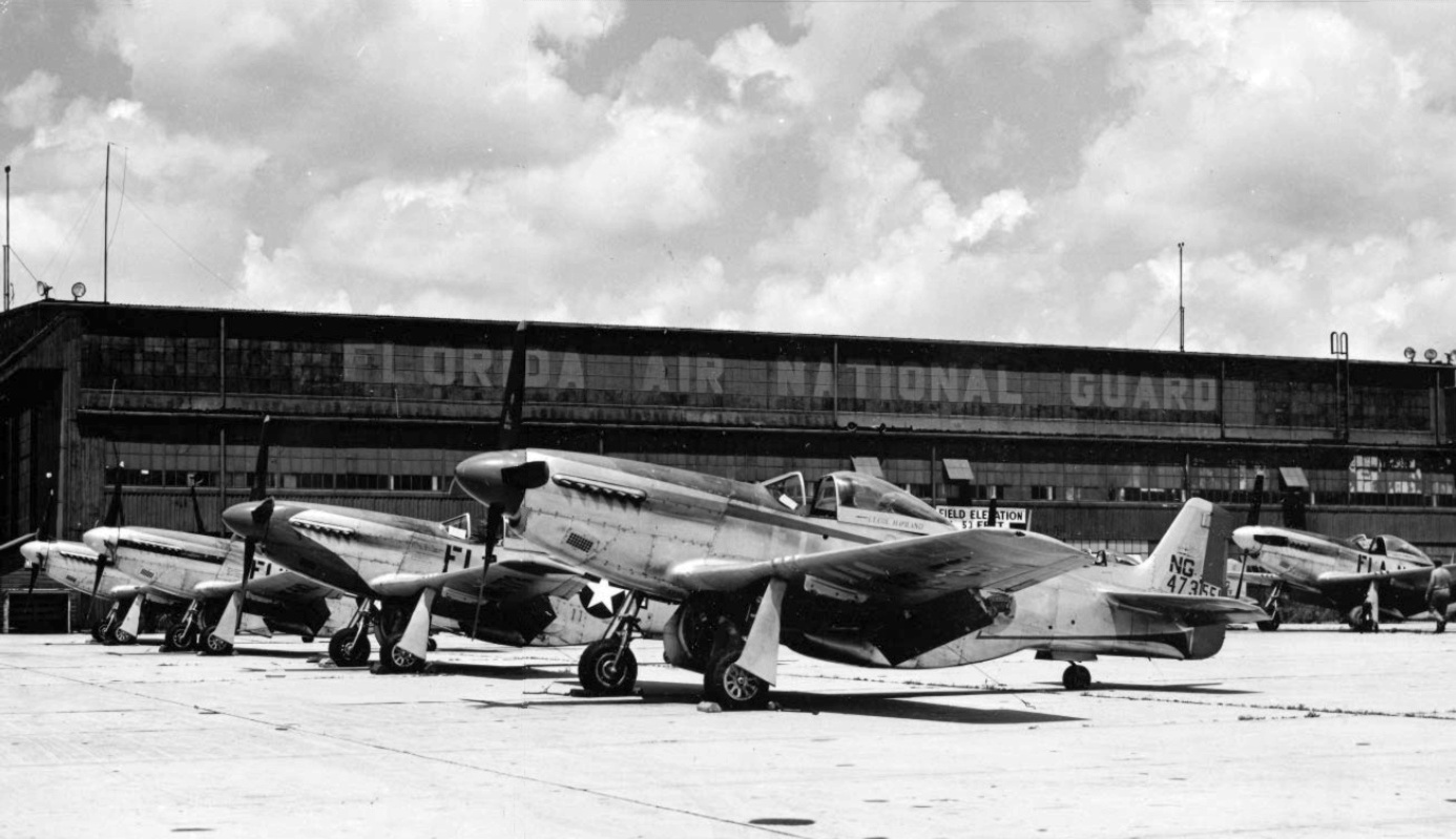 U.S. Air Force North American F-51D Mustang fighters of the 159th Fighter Squadron, Florida Air National Guard, at Thomas Cole Imeson Airport, Jacksonville, Florida (USA), circa 1947.